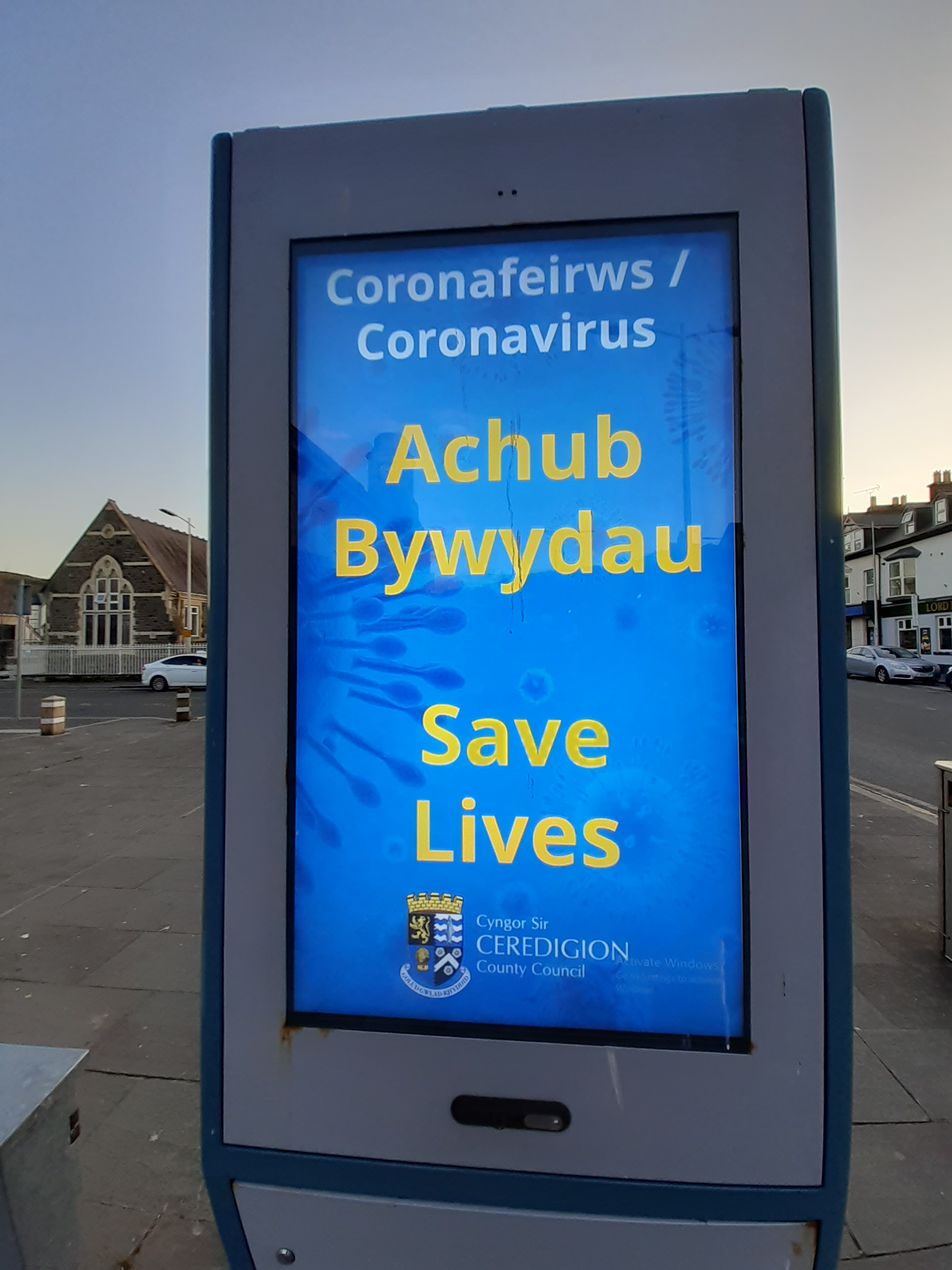 COVID-19 bilingual sing Aberystwyth